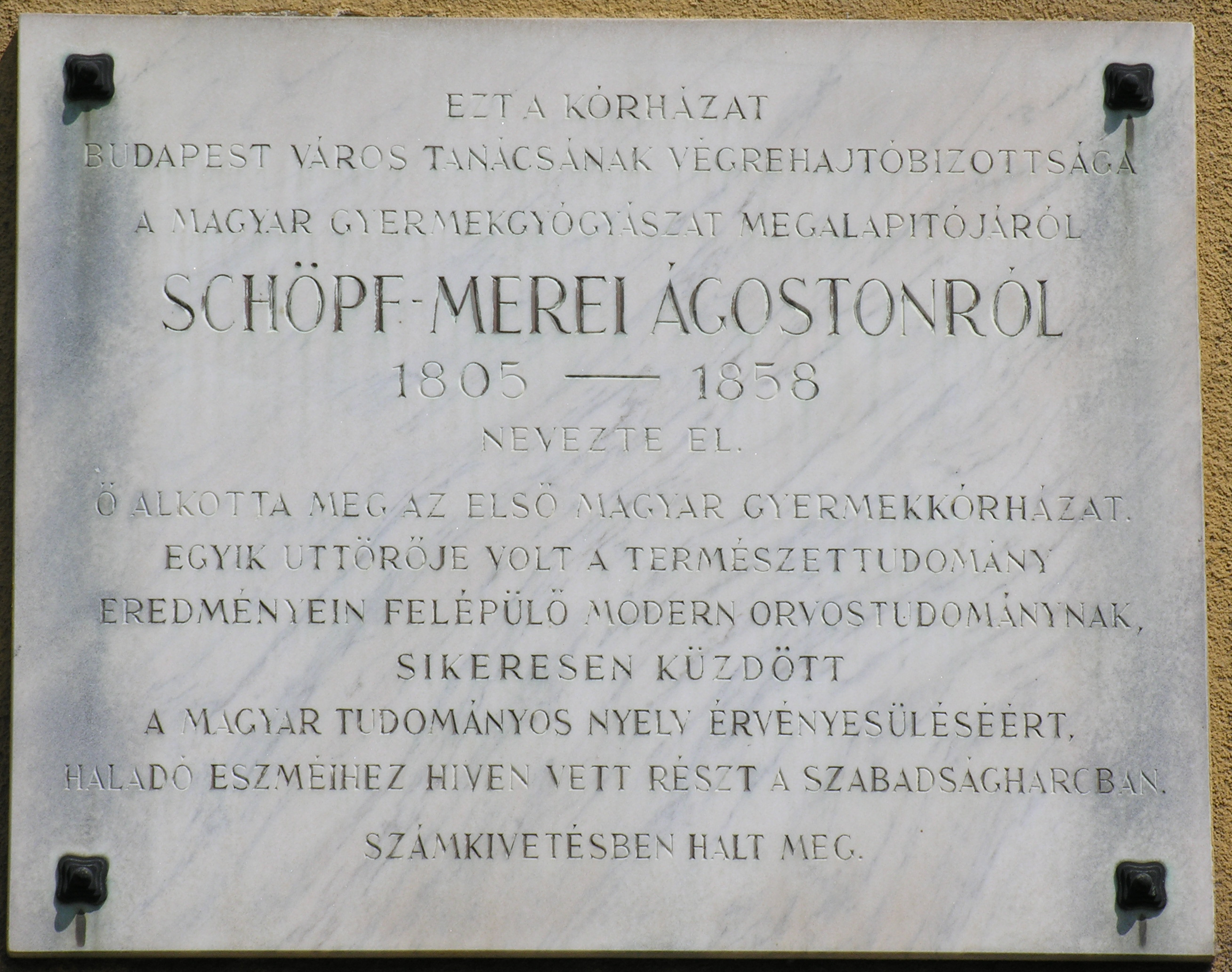 Commemorative plaque of Ágost Schöpf-Merei in Budapest District IX, Bakáts Square No 11